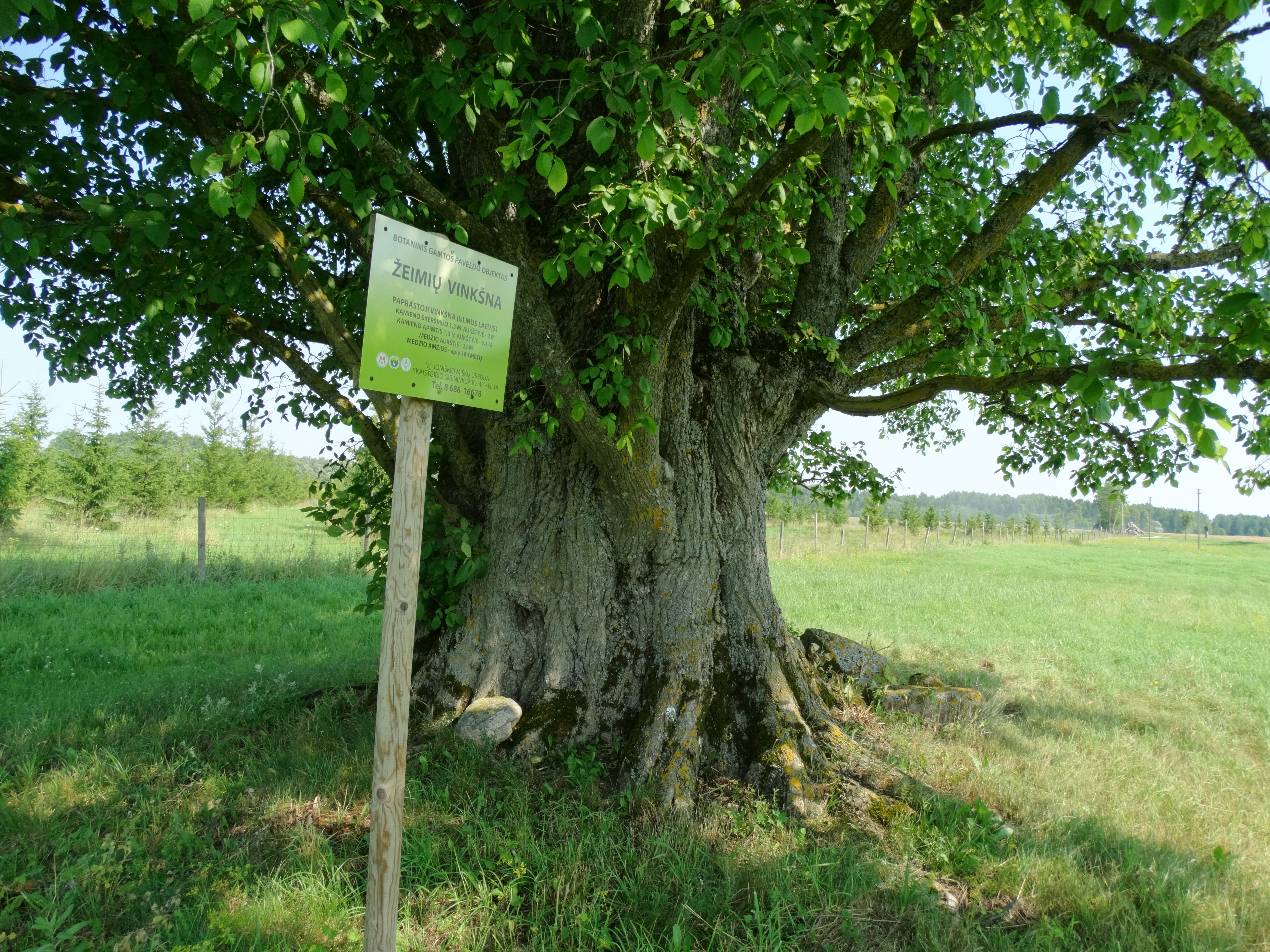 European White Elm, Žeimiai, Joniškis District, Lithuania